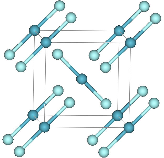 Crystal structure of krypton difluoride (KrF2). R. D. Burbank, W. E. Falconer and W. A. Sunder (1972). "Crystal Structure of Krypton Difluoride at -80°C". science 178 (4067): 1285-1286.